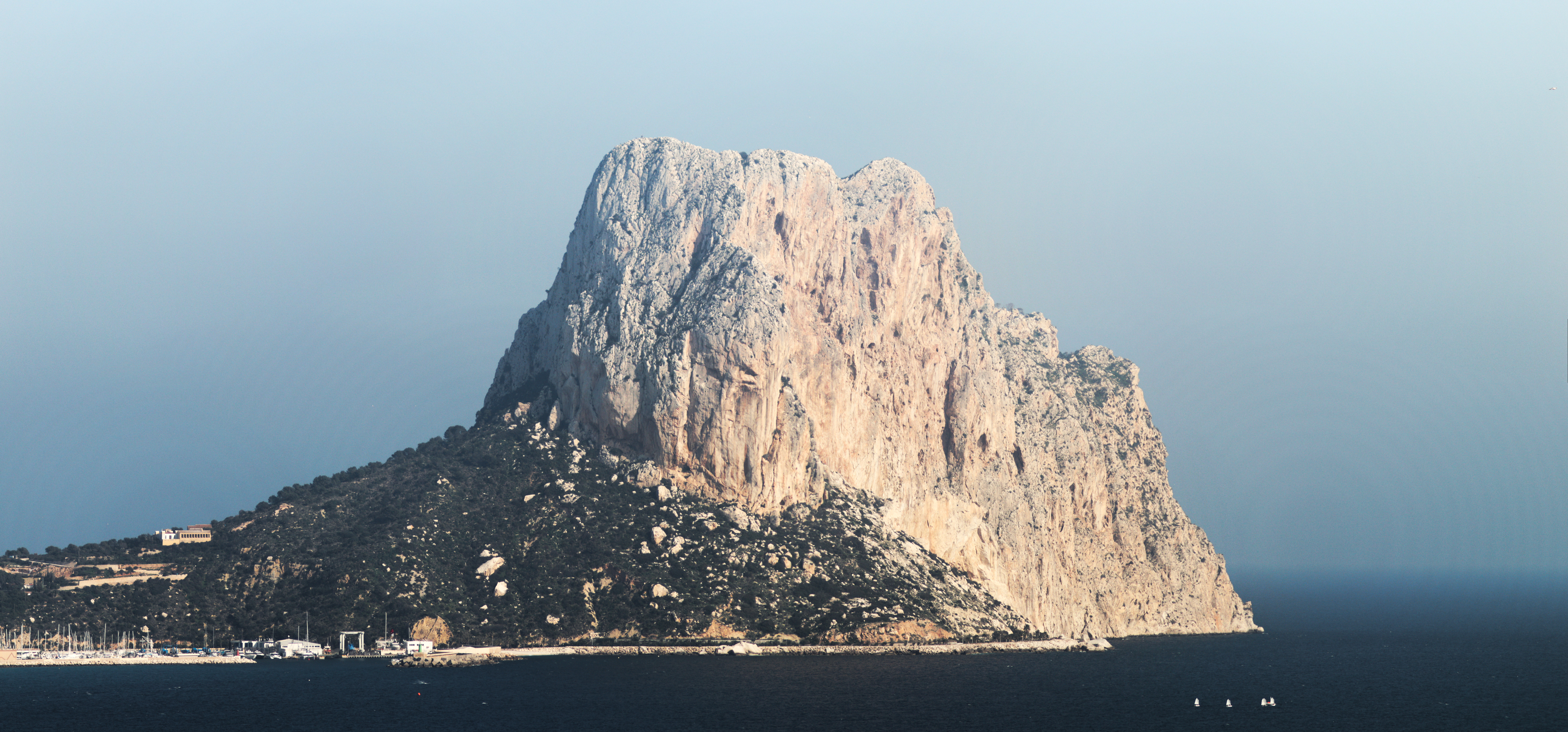 The Peñón de Ifach, seen from the Toix mountain.